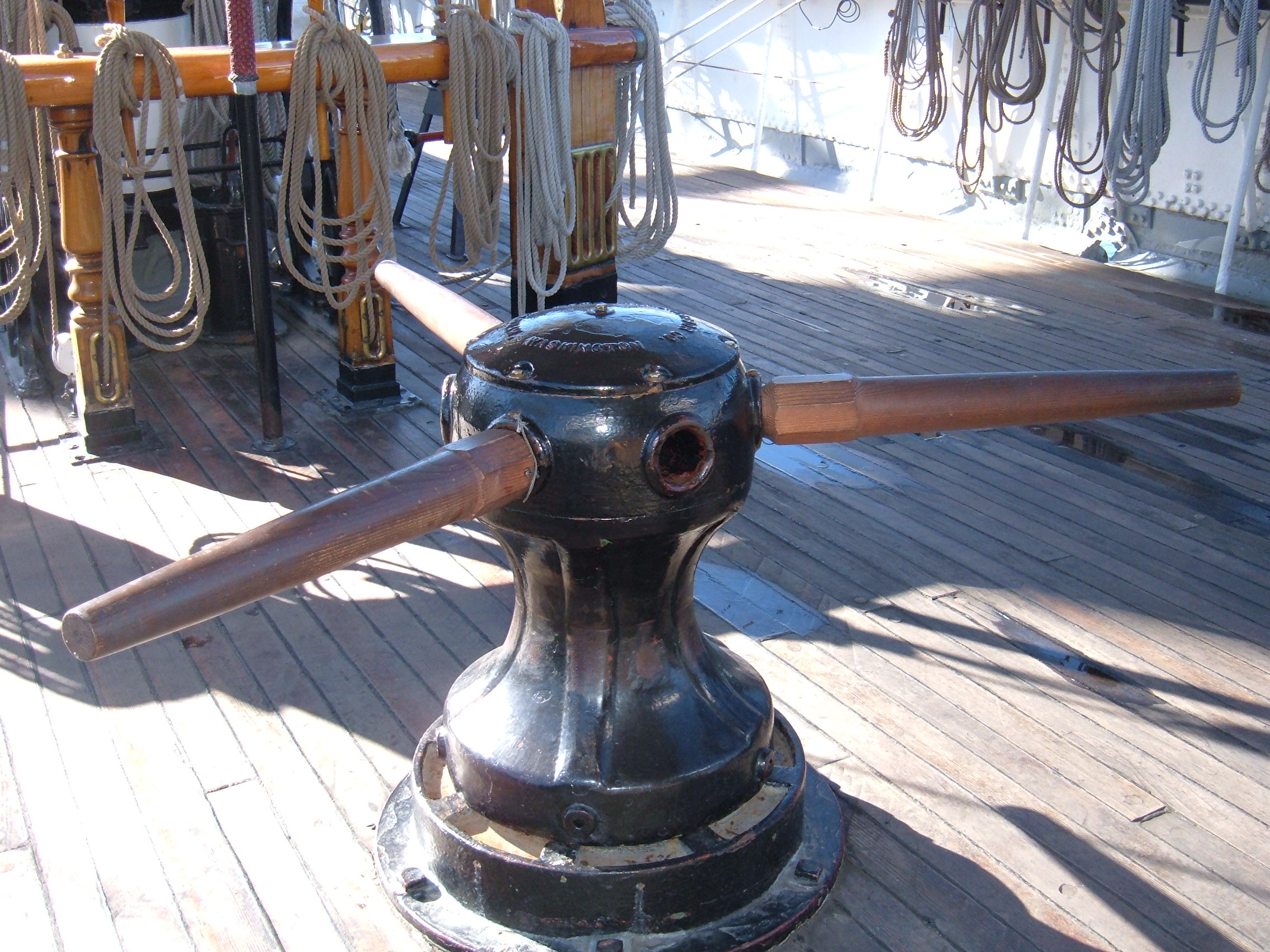 The capstan of the Star of India, part of the Maritime Museum of San Diego in San Diego, California.